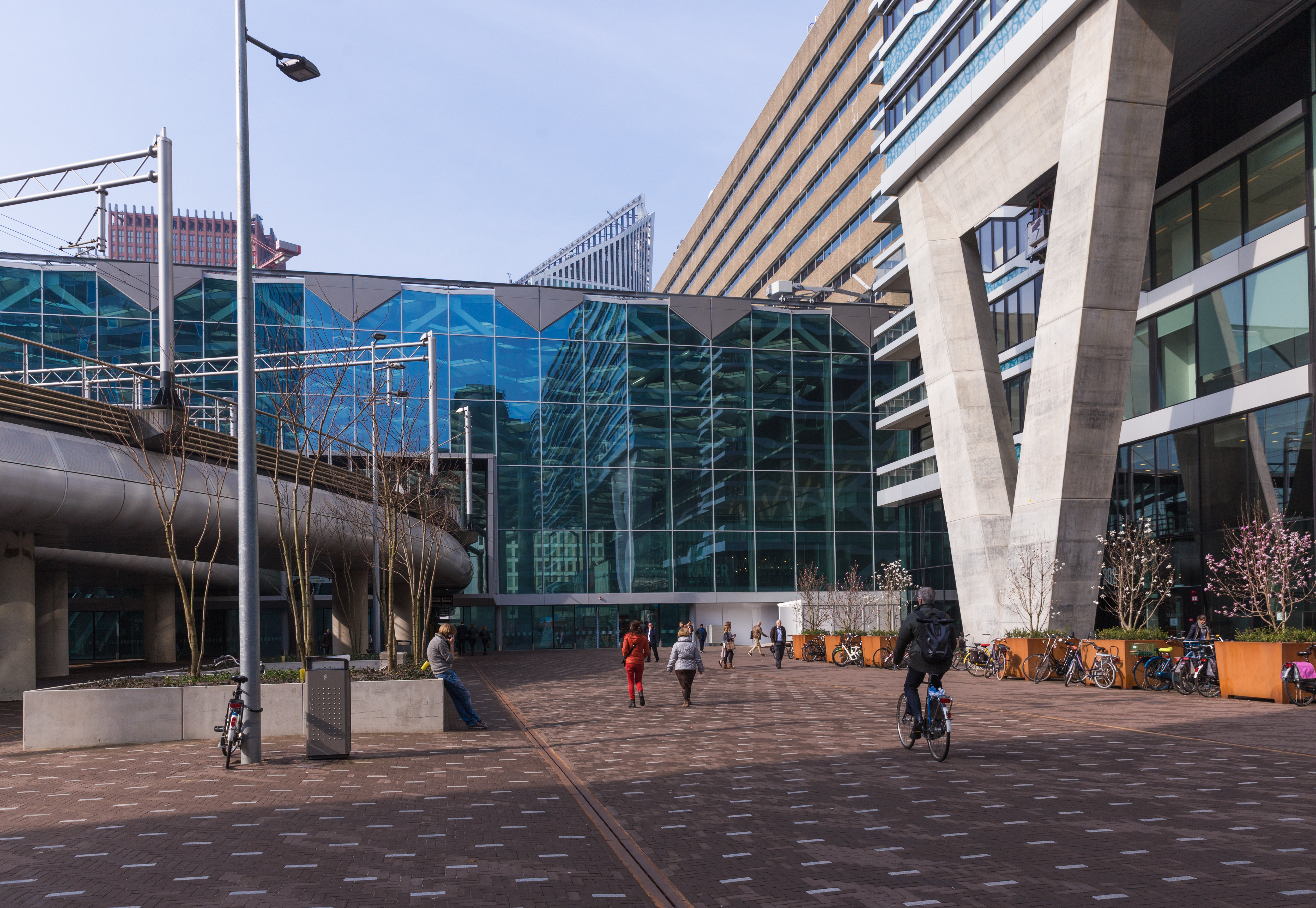 View into the interior of Central Station The Hague from the tram platform with escalator, in direction of the new tower on Babylon and the trams leaving the area of the city-center